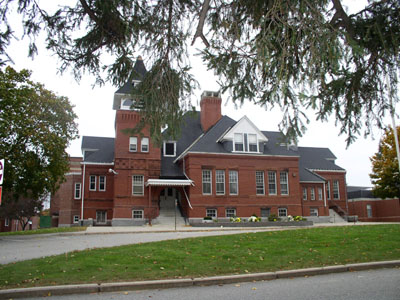 Photograph of main building of Thornton Academy campus.